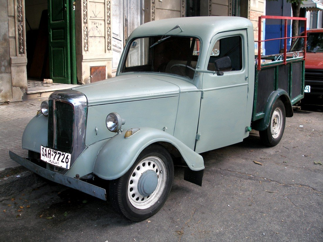 Uruguay street scene, 2006. This tiny british truck has a flat twin-cylinder 1.005cc engine. It's still working fine in Montevideo